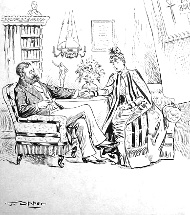 A portion of an 1890s Puck illustration, "The Importance of a Beard", as drawn and signed by Frederick Burr Opper. A single scanned panel of Opper art for Puck magazine